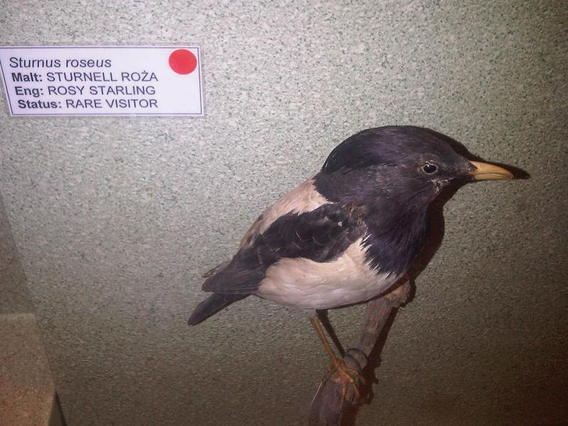 Taxidermied Rosy Starling (Sturnus roseus, syn: Pastor roseus) at the National Museum of Natural History, Vilhena Palace, Republic of Malta.